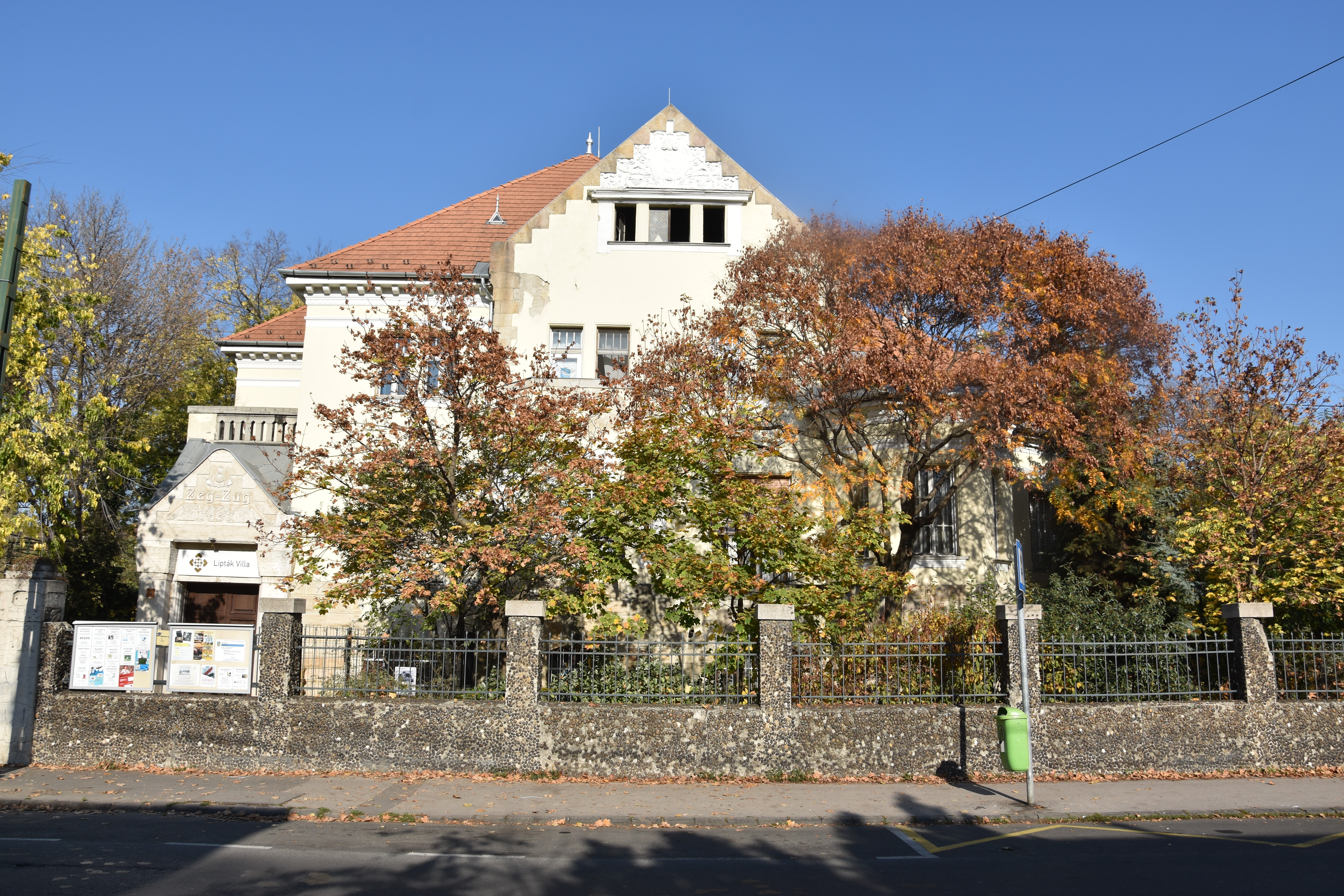 Budapest, XIV., Hermina út 3.